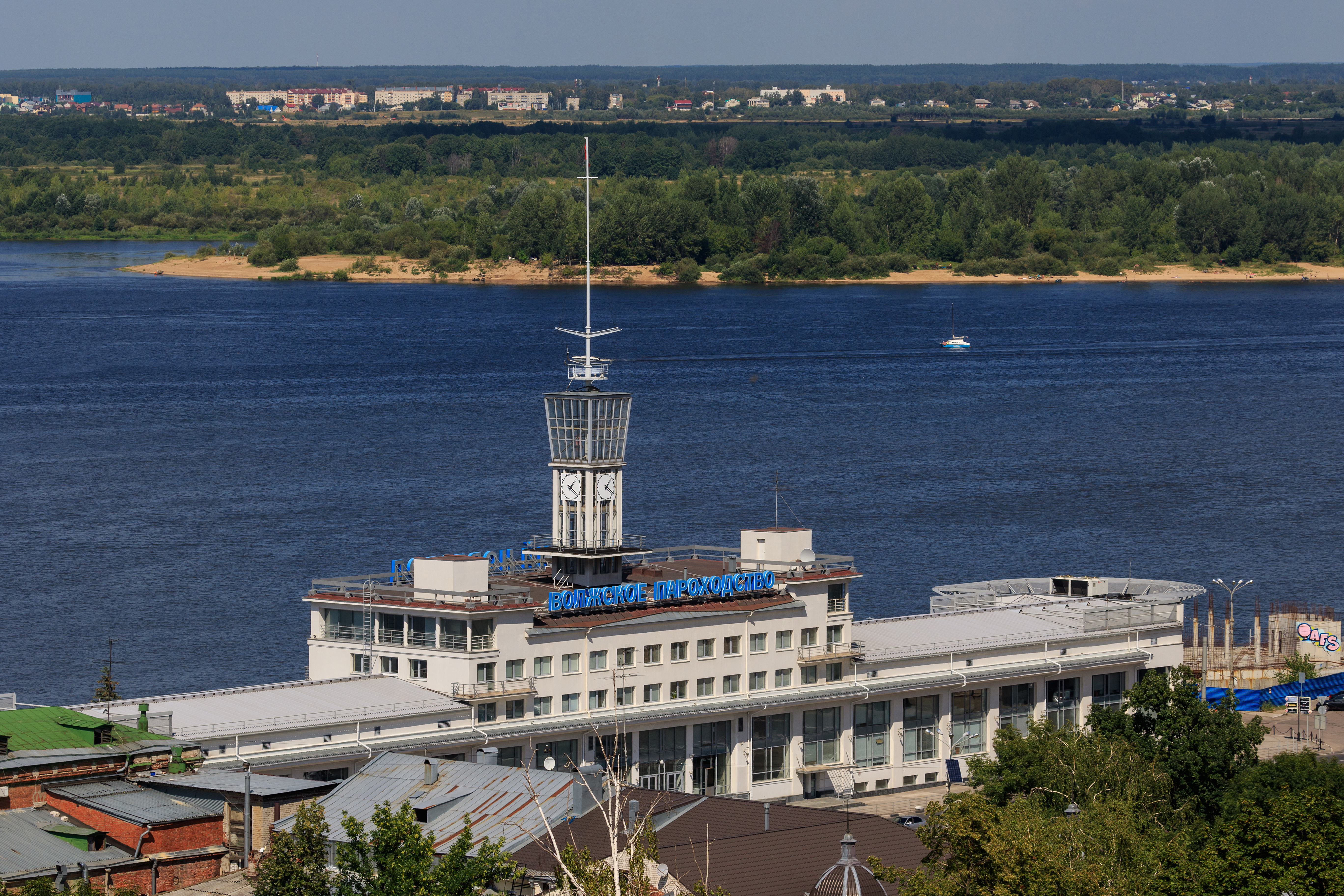 Building of the Volga Terminal (view from Fedorovskogo Embankment) in Nizhny Novgorod, Russia